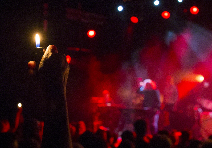 Valkyrien in concert at Parkteatret. The concert took place on 05. October 2016 in Oslo. The concert marked the release of the album “Prøv å si noe til meg nå”.Lineup:Tuva Syvertsen (vocal)Erik Sollid (fiddle)Martin Viktor Langlie (drums)Magnus Larsen jr. (double bass)Marita Igelkjøn Vårdal (keyboard)Bård Ingebrigtsen (guitar)Maria Due (backing vocal)